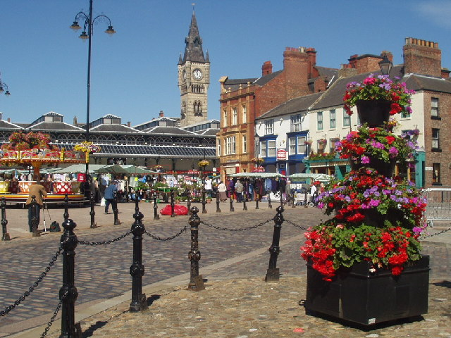 Darlington. A sunny day